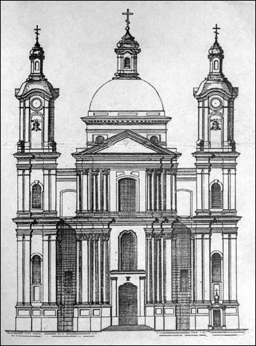 Church_of_the_Assumption_(Viciebsk,_Bielarus), Усьпенская царква (сабор) у Віцебску